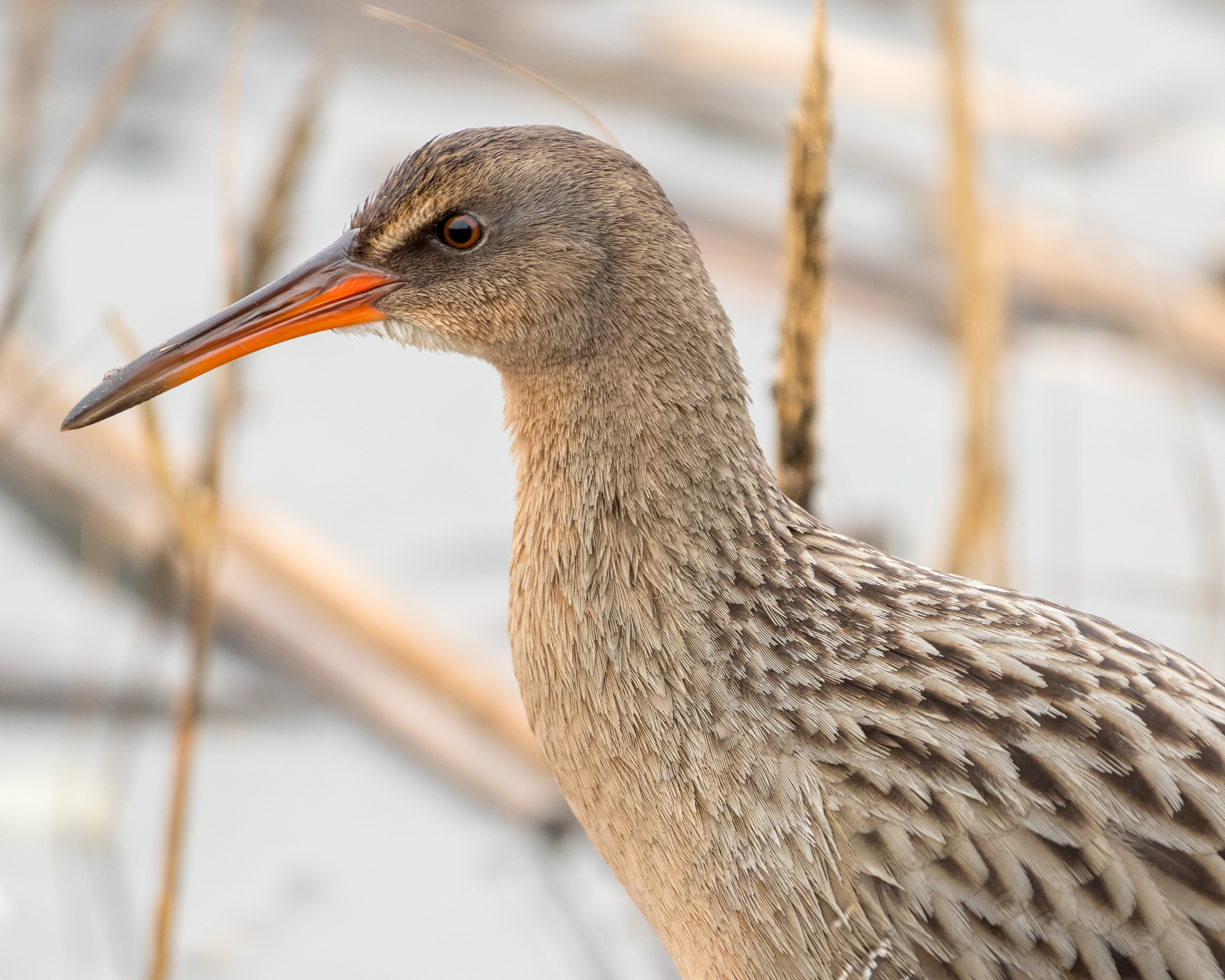 San Francisco Bay Trail, Point Isabel, California